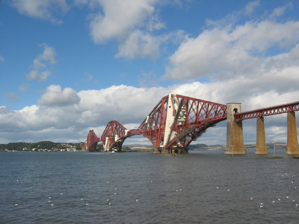 Forth Bridge, Firth of Forth, near Edinburgh, Scotland